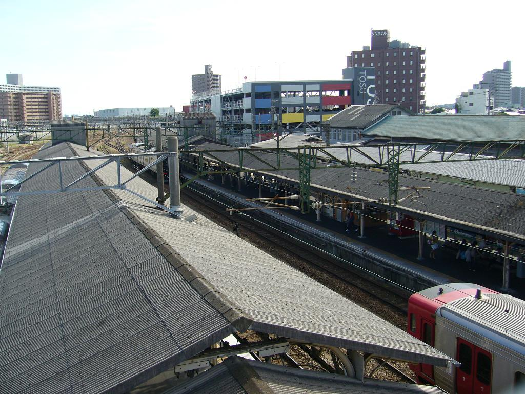 It is a platform at Tosu Station.